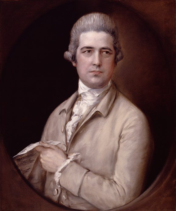 Portrait of Thomas Linley (1733-1795)